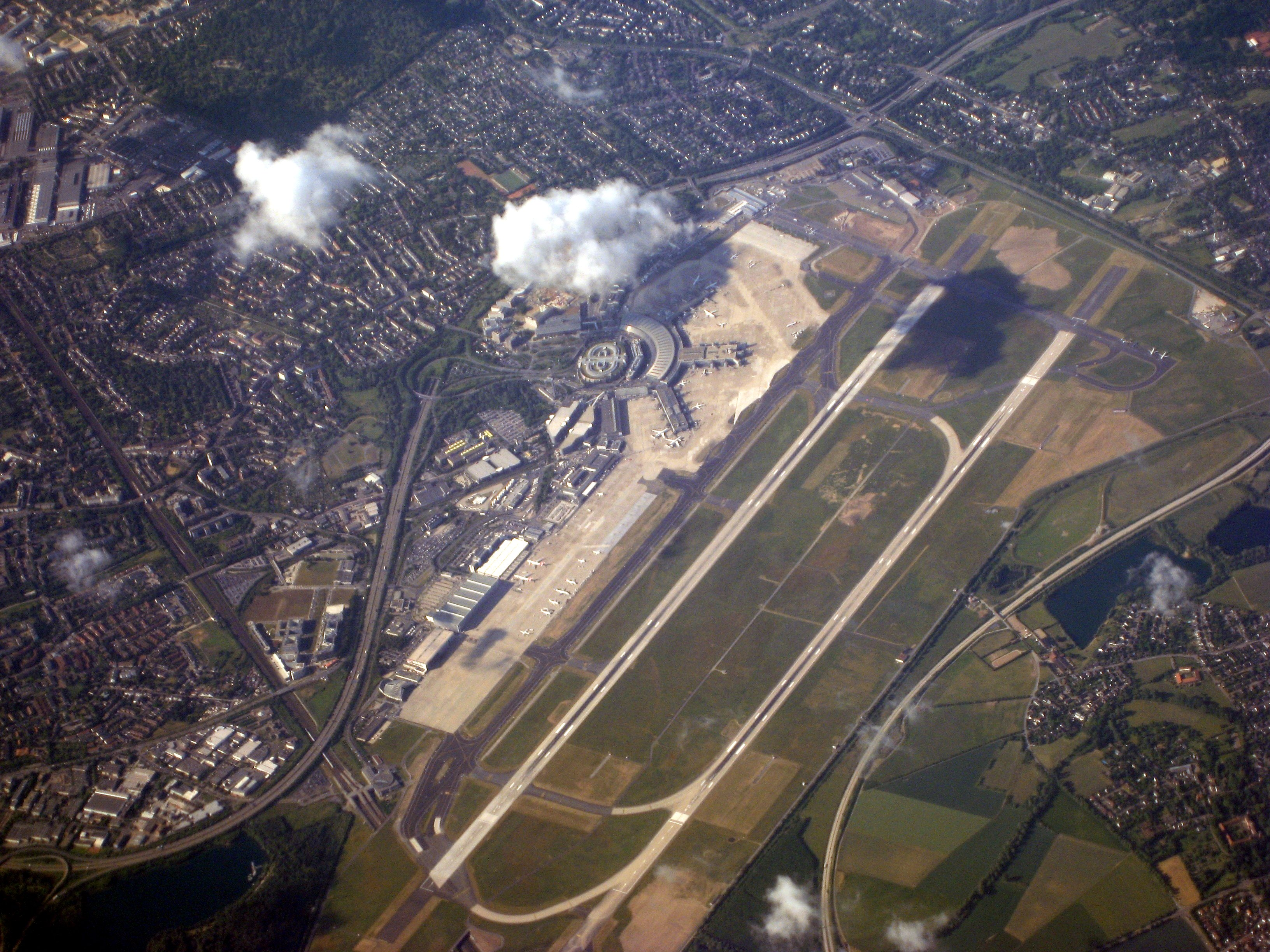 Düsseldorf International Airport. Upwards: SSW i090527 398